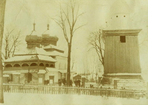 Church of the Holy Trinity and the bell tower. Nyzhankovychi. Ukraine. Winter. The middle of the 1910s.